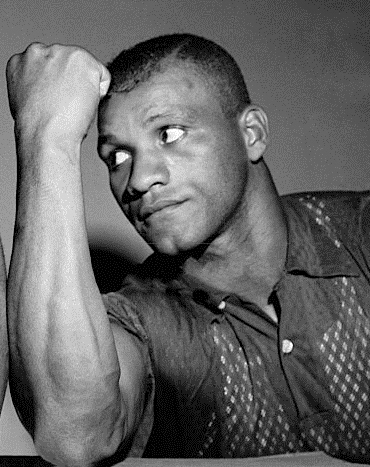 LD5 1954 Lightweight Match Archie Moore Harold Johnson Size Up Orig Press Photo